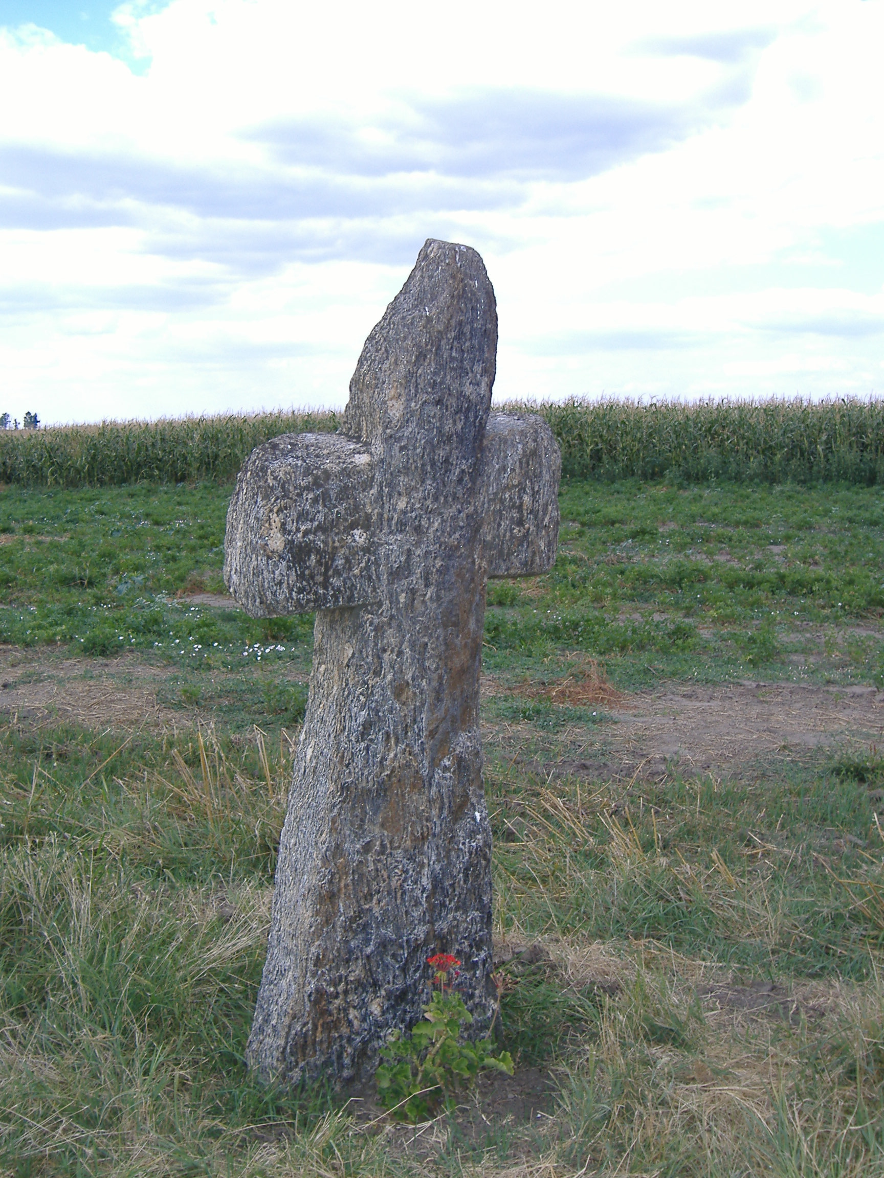 Kunkereszt ("Cuman cross") in Belez, periphery of Magyarcsanád, Hungary. According to local legends it is claimed to be the cross of Ladislaus IV of Hungary, altought sources show this cross marks the place, where György Dózsa killed the bishop of Csanád diocese.